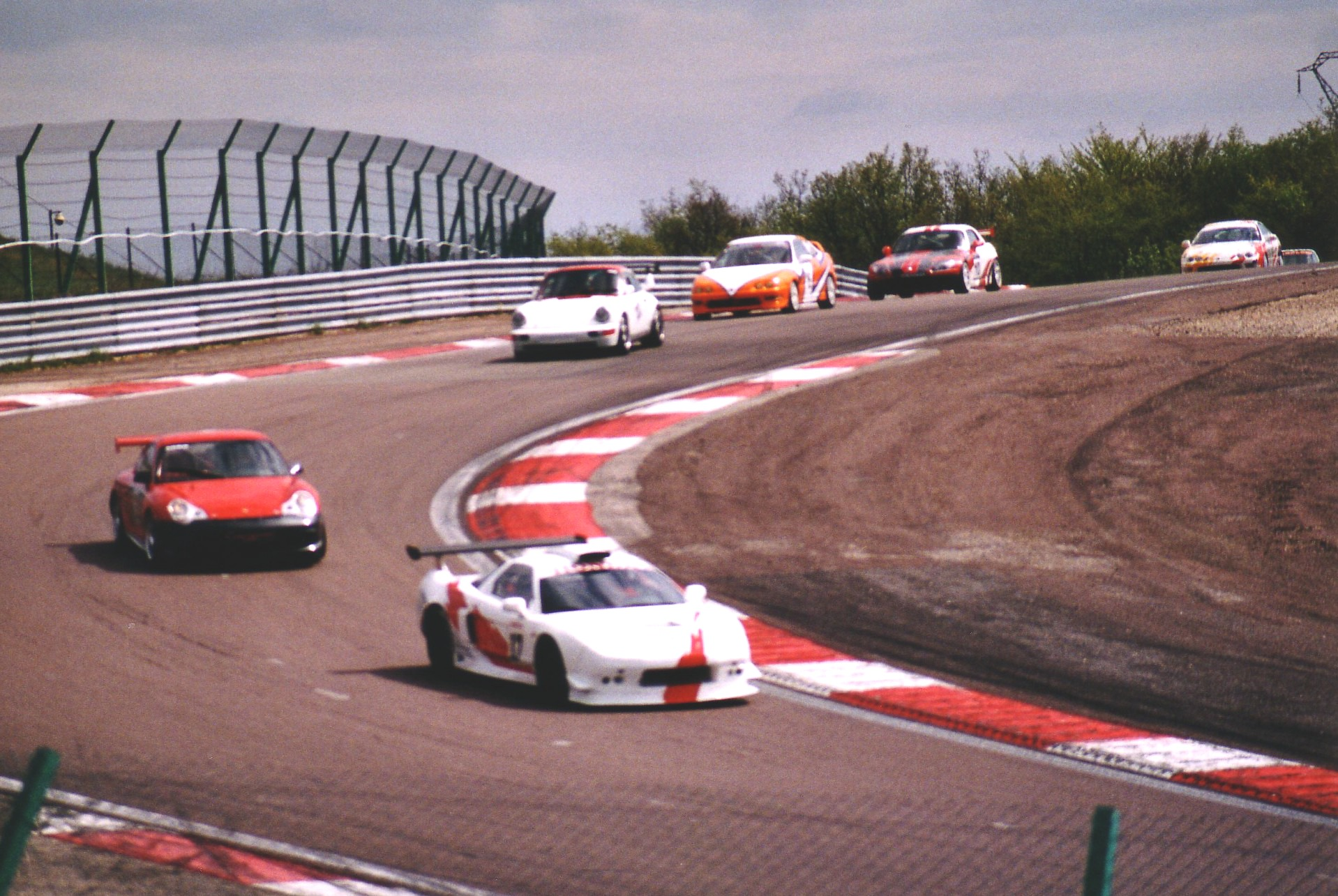 The fastest qualifyers of the European Honda trophy race 2004 at the track of Dijon-Prenois (don't be puzzled by the Porsches, they were allowed to race with the Hondas); own picture Wolfgang Messer User:NSX-Racer, Date: Mai 2004